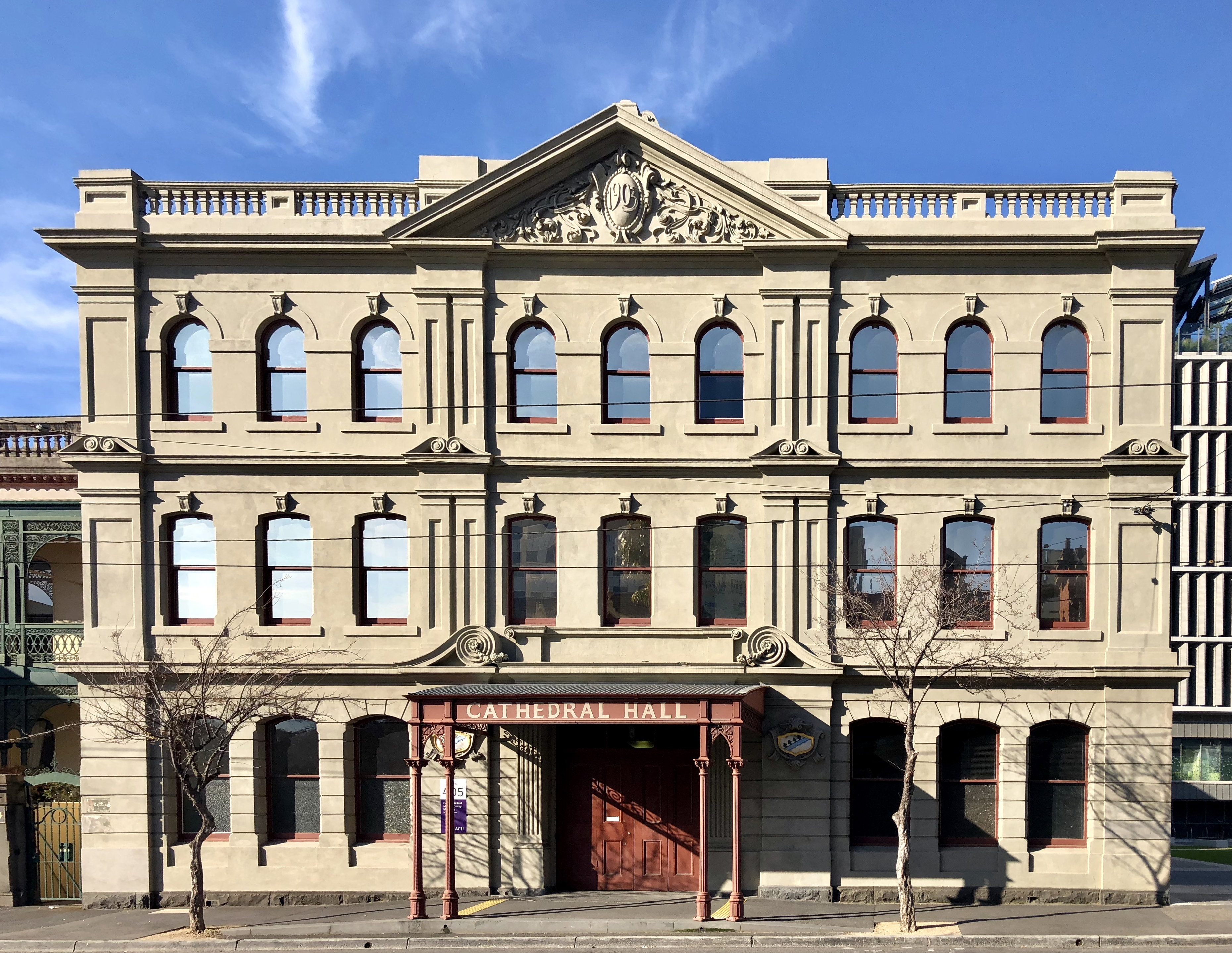 Central Hall at 20 Brunswick Street, Fitzroy, previously Cathedral Hall, was built as the Exhibition Boot Factory in 1873. The hall behind the factory was used by St Patrick's Cathedral from 1903. Now part of Australian Catholic University.